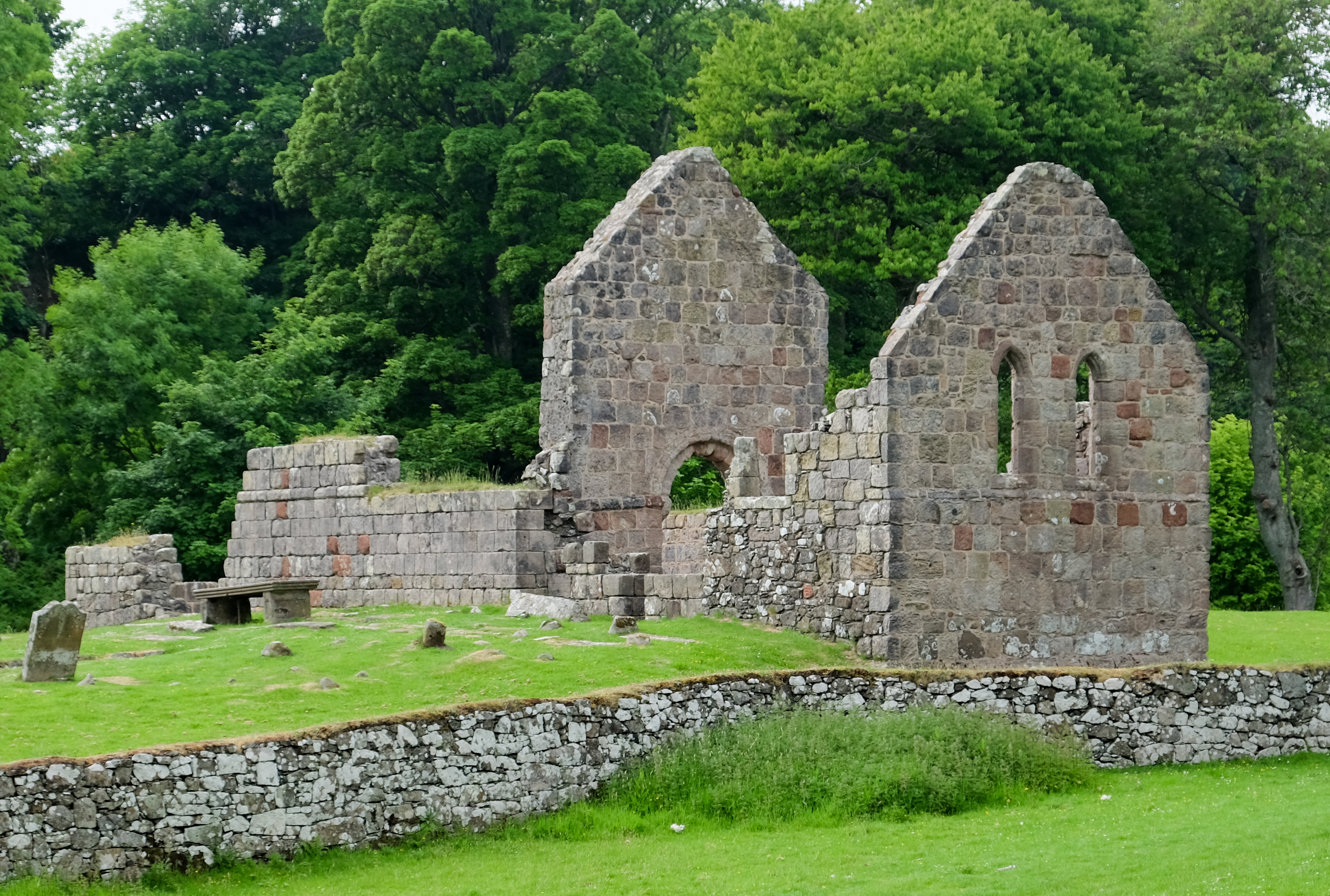 The ruin of St Blaine's Church, Isle of Bute.